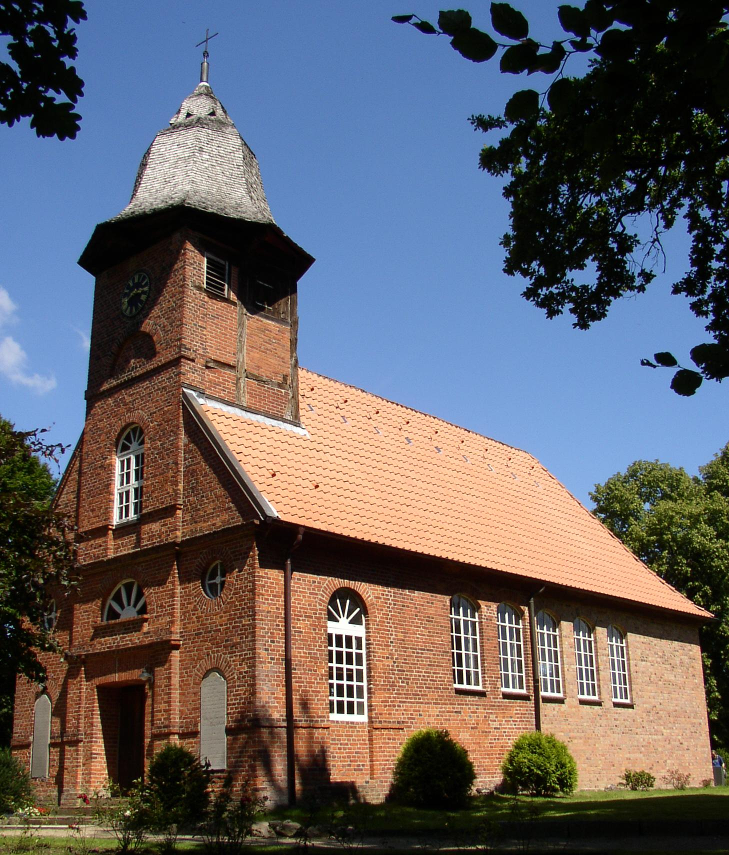 Church in Gresse in Mecklenburg-Western Pomerania, Germany